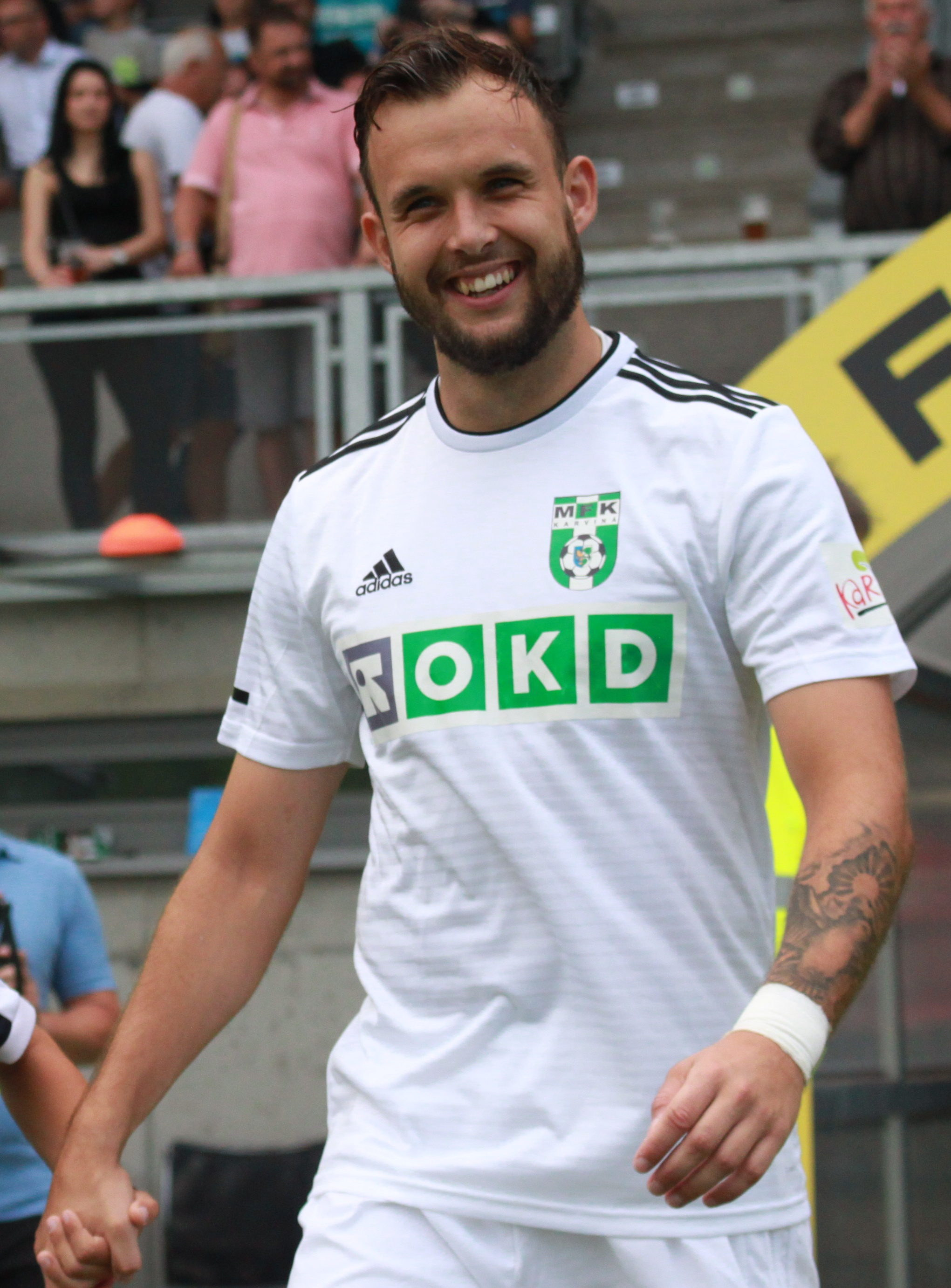 Lukáš Budínský during association football match MFK Karviná-1. FC Slovácko (2:1) on 2nd Semtemper 2018